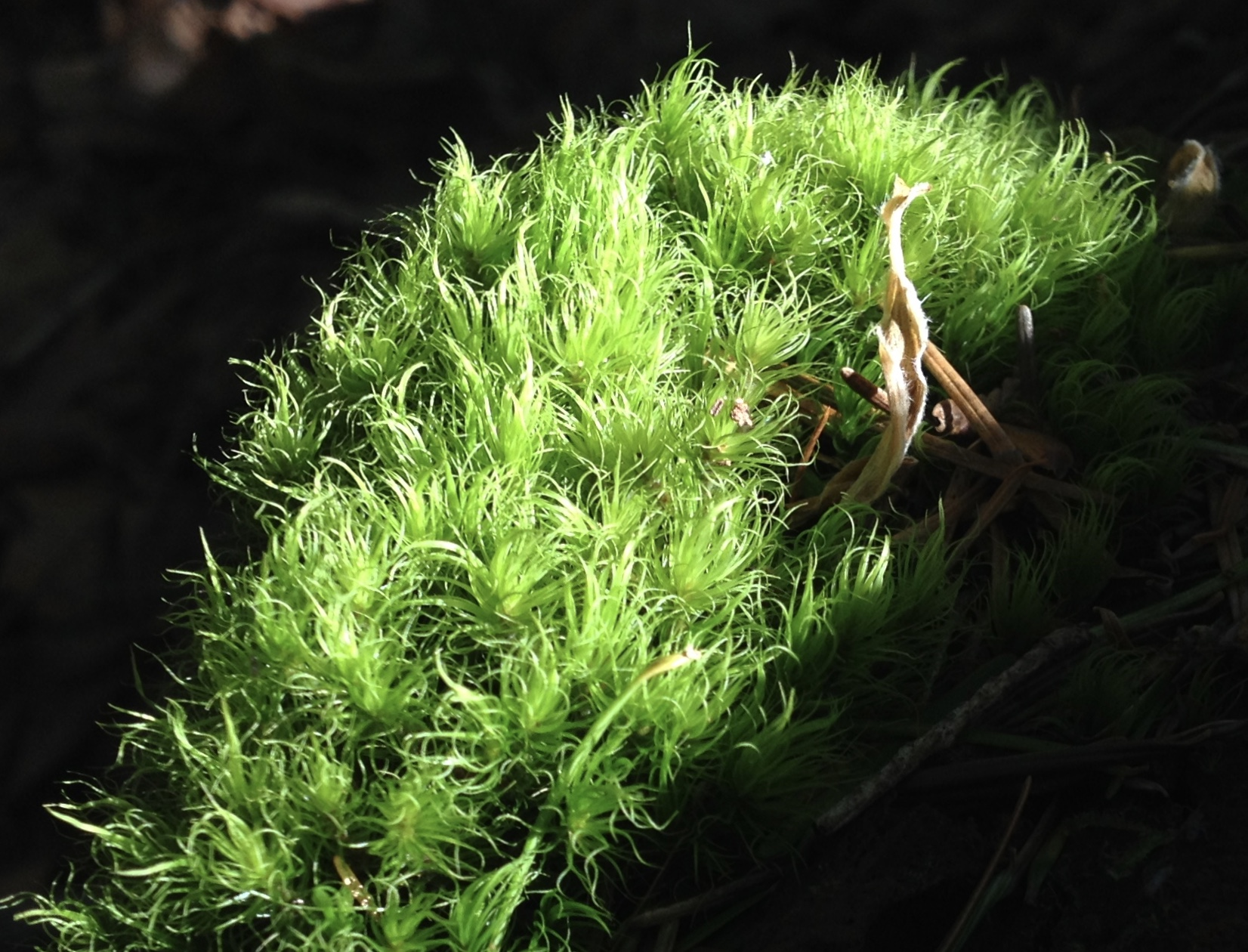 This is a patch of moss photographed on Denman Island in B.C.